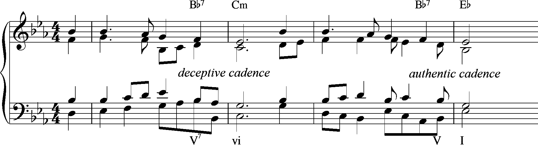 From Bach chorale, Wachet auf